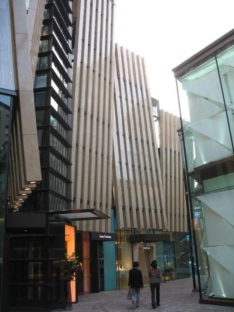 The Veloqux Building is a commercial centre with luxury stores and well-known fashion labels. Tokyo. Japan.